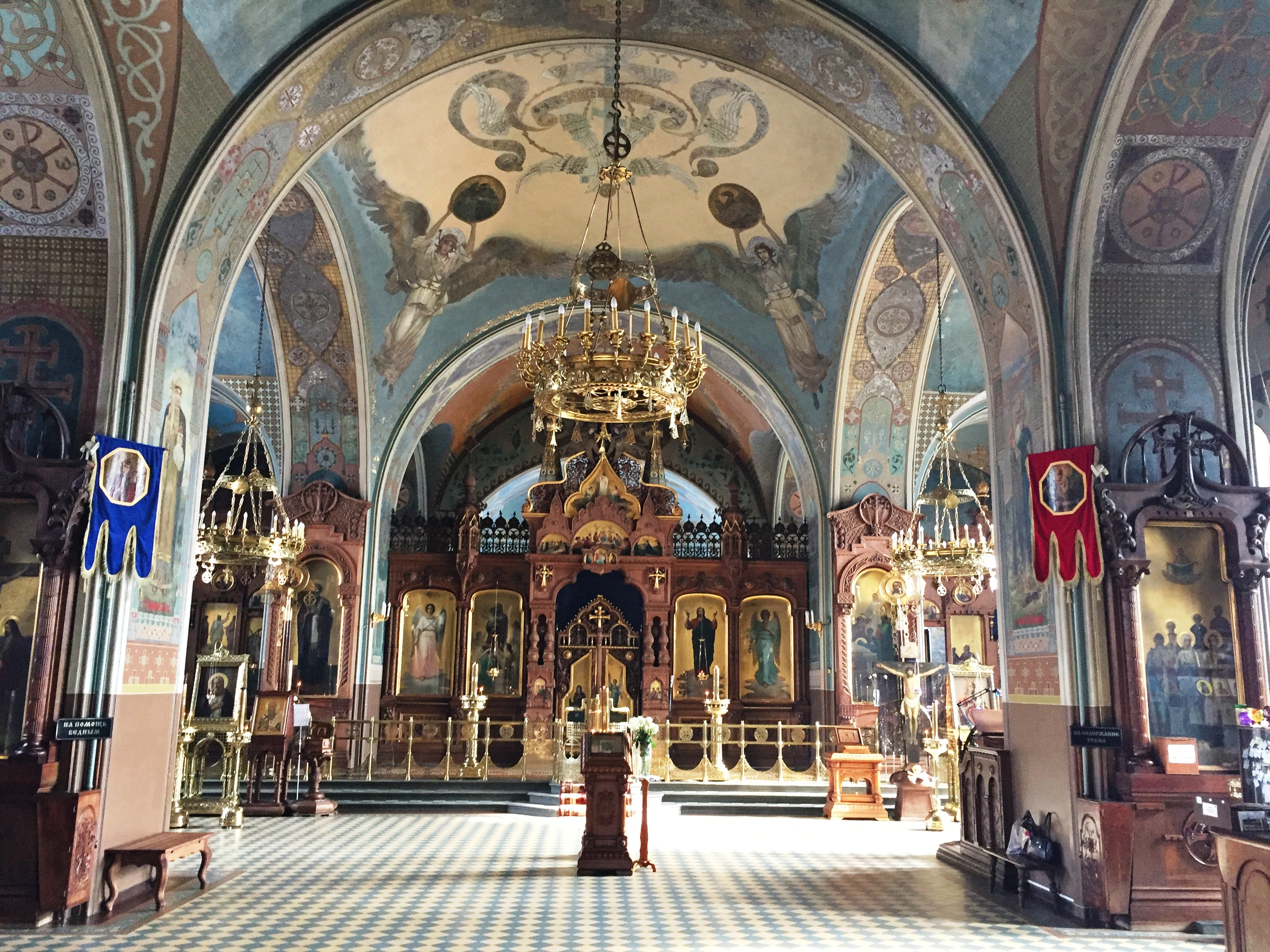 Interior of Church of Dormition of the Theotokos at Petushki